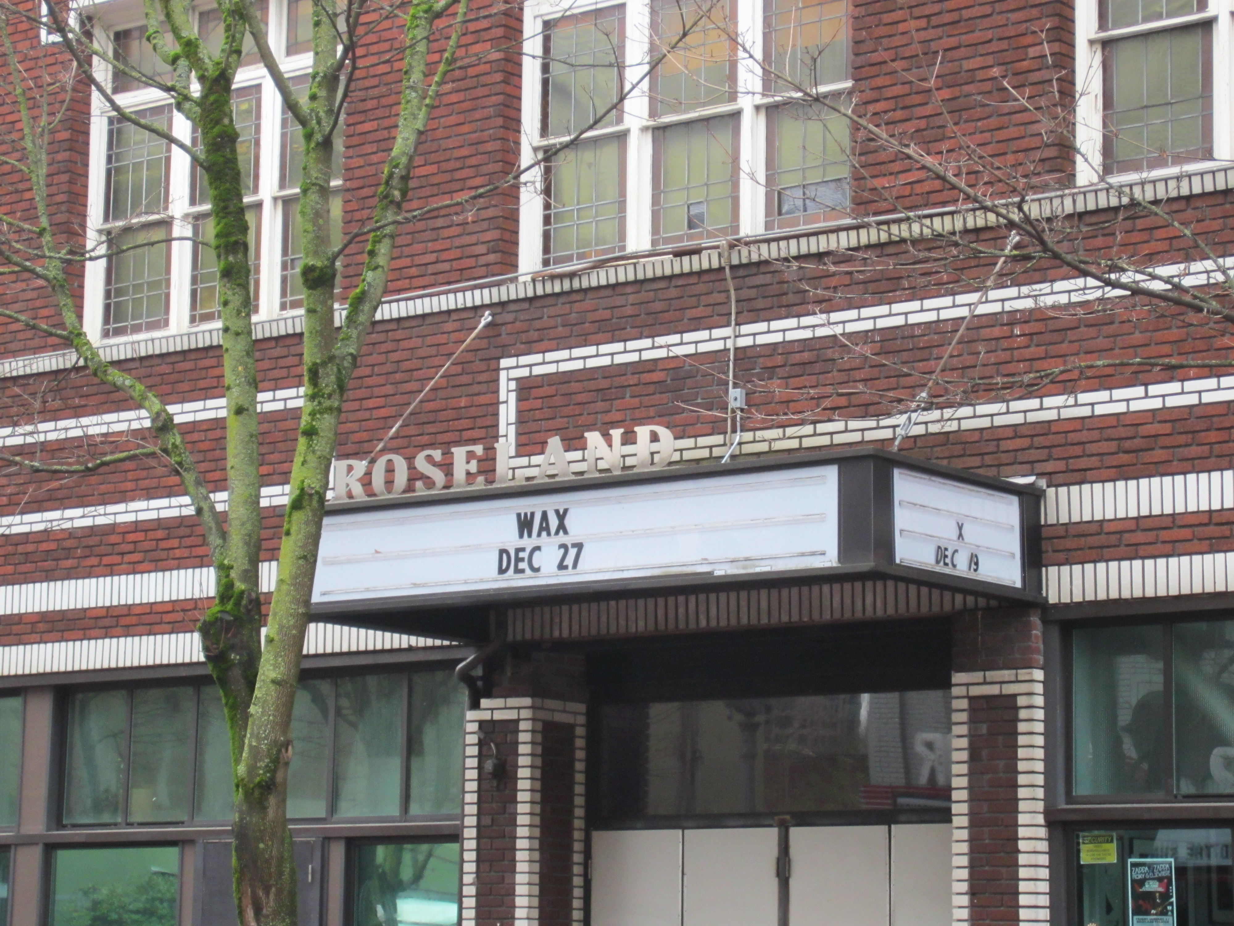 Roseland Theater, Portland, Oregon (2014)